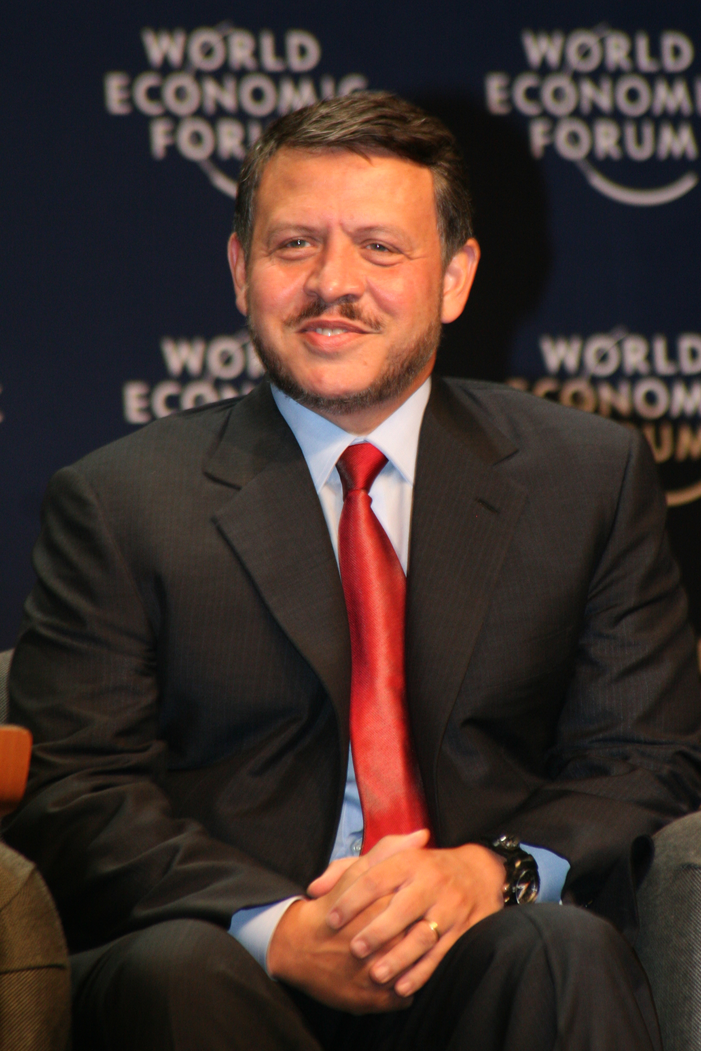 King Abdullah captured at the World Economic Forum on the Middle East held at the Dead Sea in Jordan 18-20 May 2007. Copyright World Economic Forum (